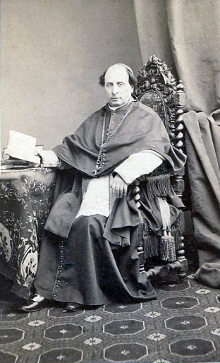 Fratelli D'Alessandri: Cardinal Girolamo marquess d'Andrea (1812-1868).